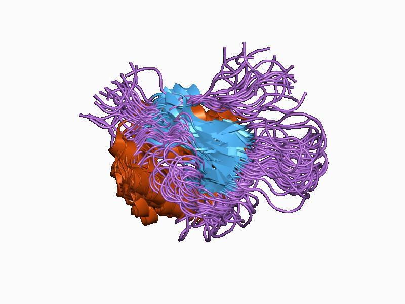 Cartoon representation of the molecular structure of protein registered with 1d1r code.